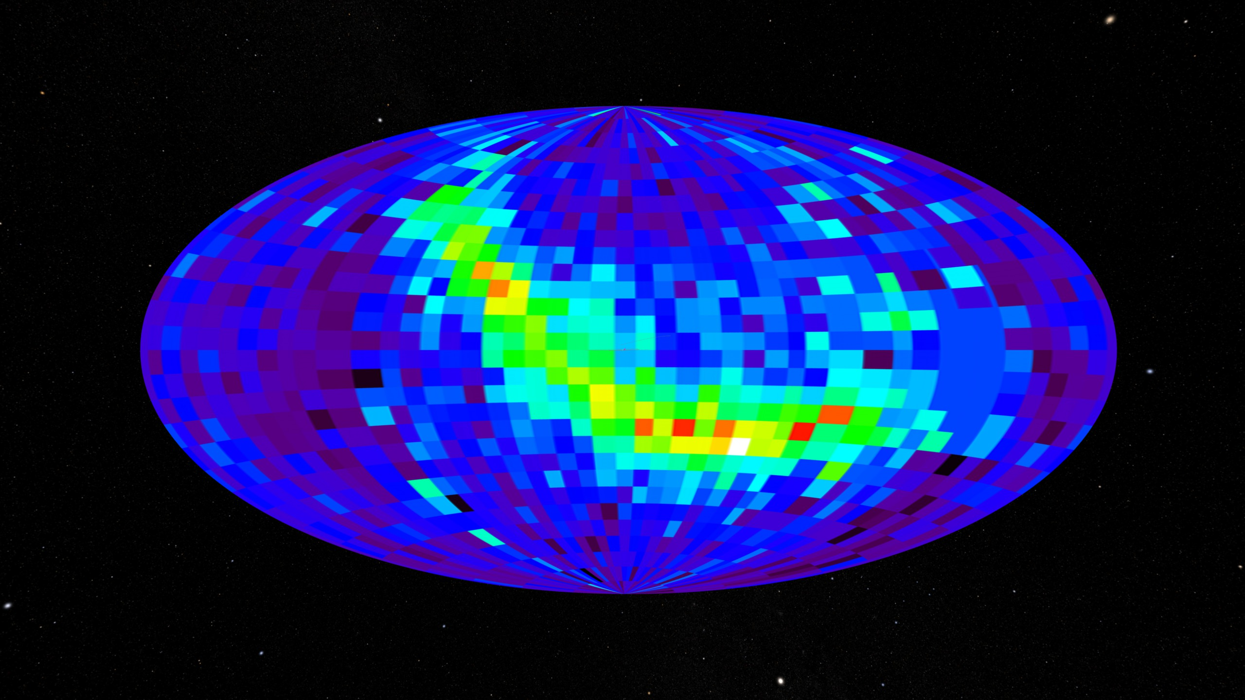 All-sky map created using the IBEX spacecraft. This data comes from the IBEX-Hi instrument showing differential flux at 0.9-1.5 keV.